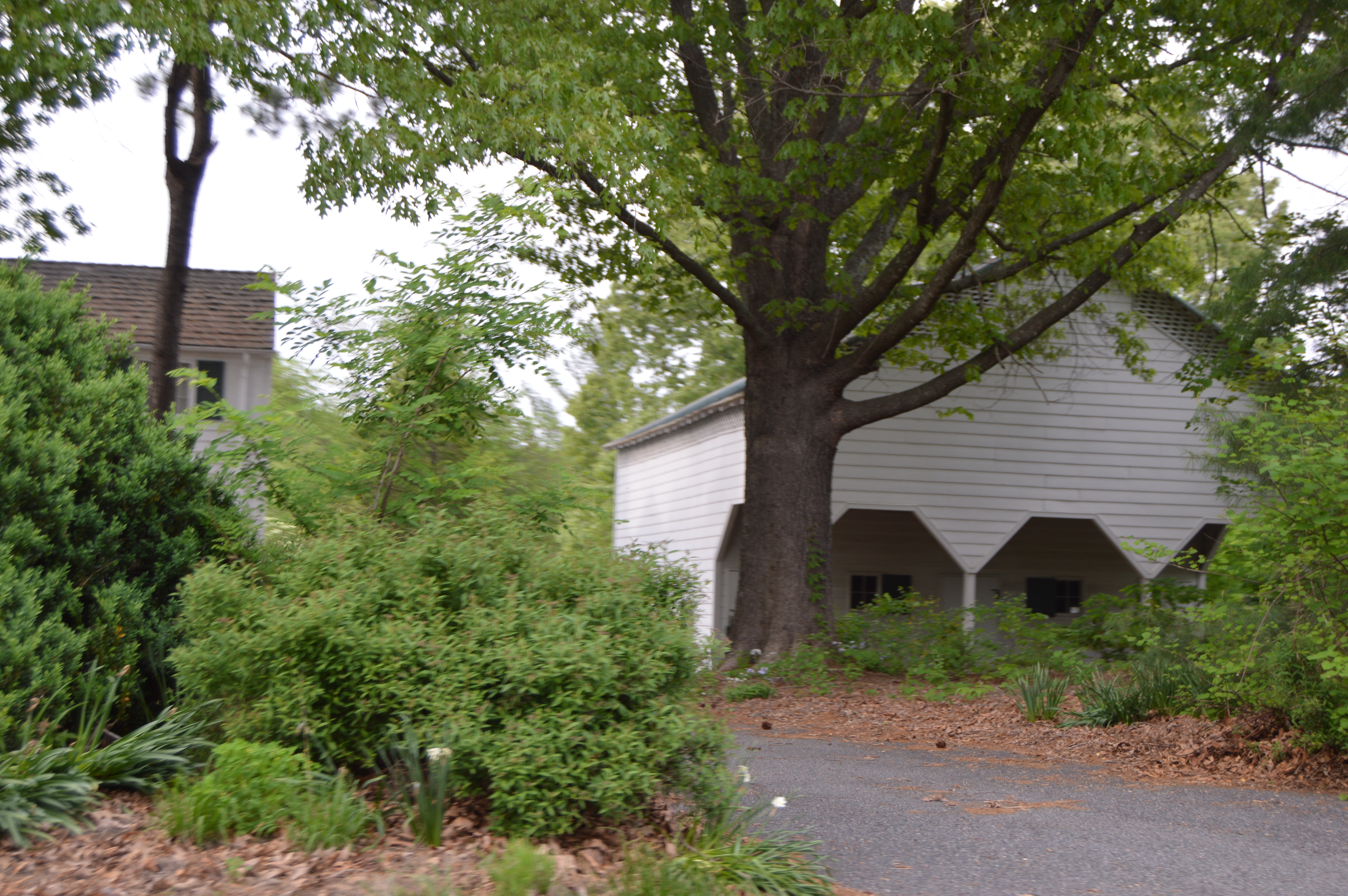 Roadside view of the barn at Longwood, located on Buck Mountain Road north of Charlottesville in Albemarle County, Virginia, United States. Built in 1890, it is listed on the National Register of Historic Places together with the rest of the farmstead.